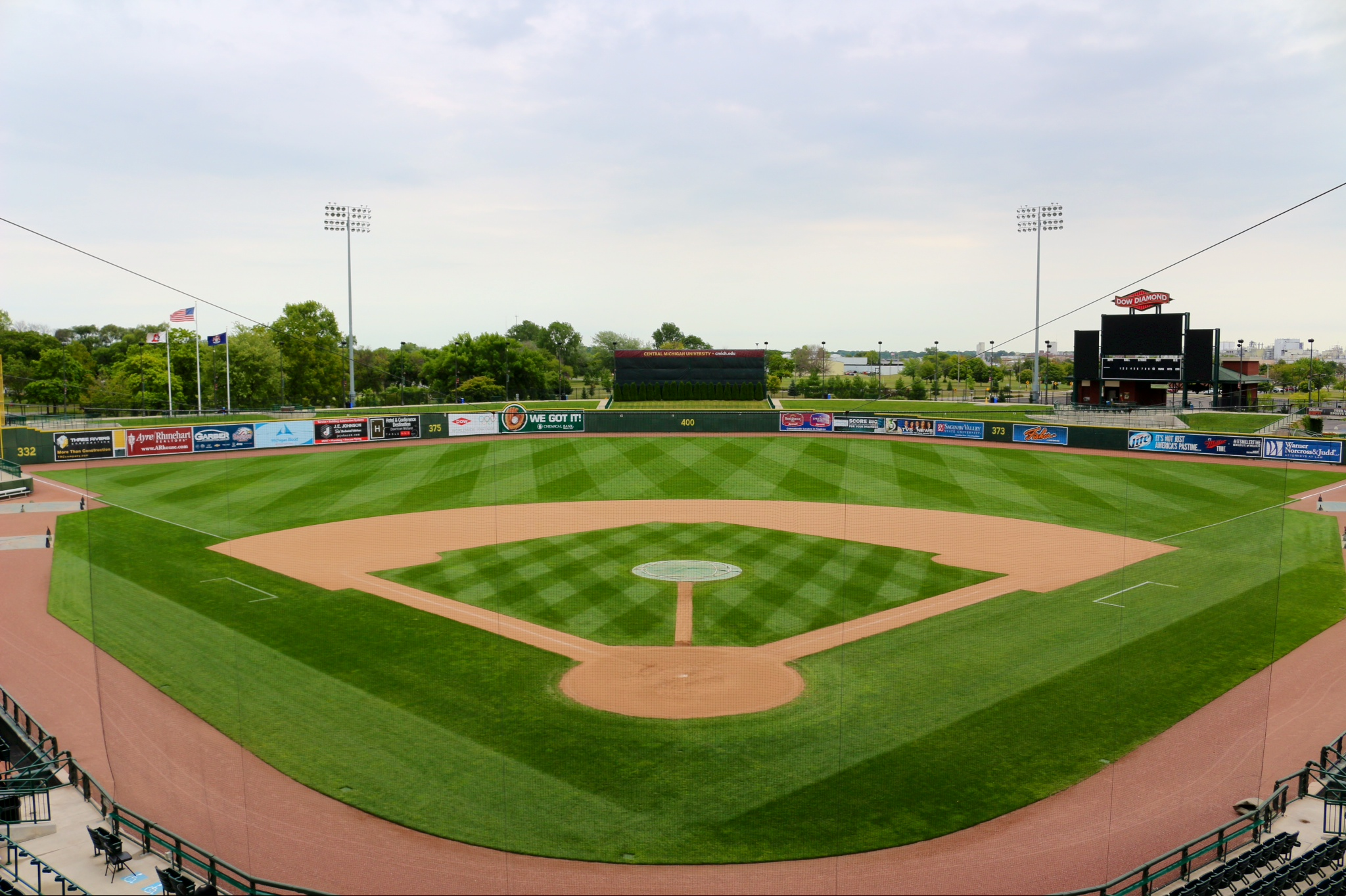 Home of the Great Lakes Loons, Dow Diamond in Midland, Michigan, on an August afternoon in 2014.